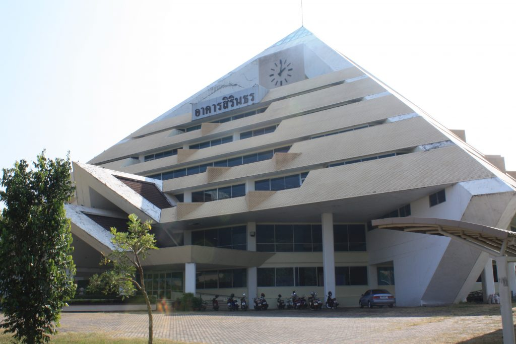 อาคารสิรินธร มหาวิทยาลัยเทคโนโลยีพระจอมเกล้าพระนครเหนือ วิทยาเขตปราจีนบุรี